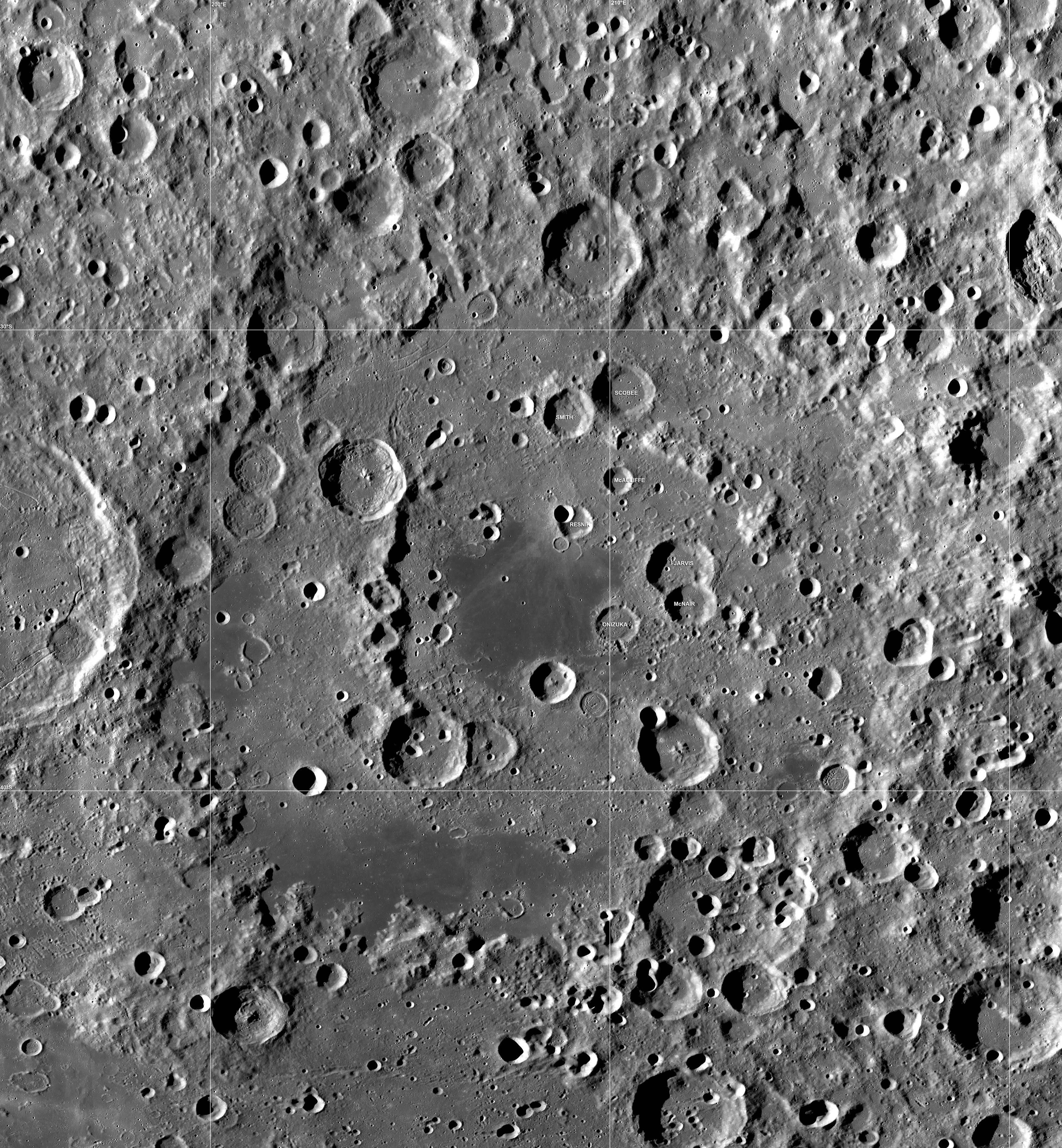 Apollo crater: mosaic of images, made by Lunar Reconnaissance Orbiter (Wide Angle Camera). Craters named after the crew of Space Shuttle Challenger are labeled. Brightness of the original image was increased.